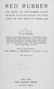 Red Rubber frontipage E. D. Morel, 1906